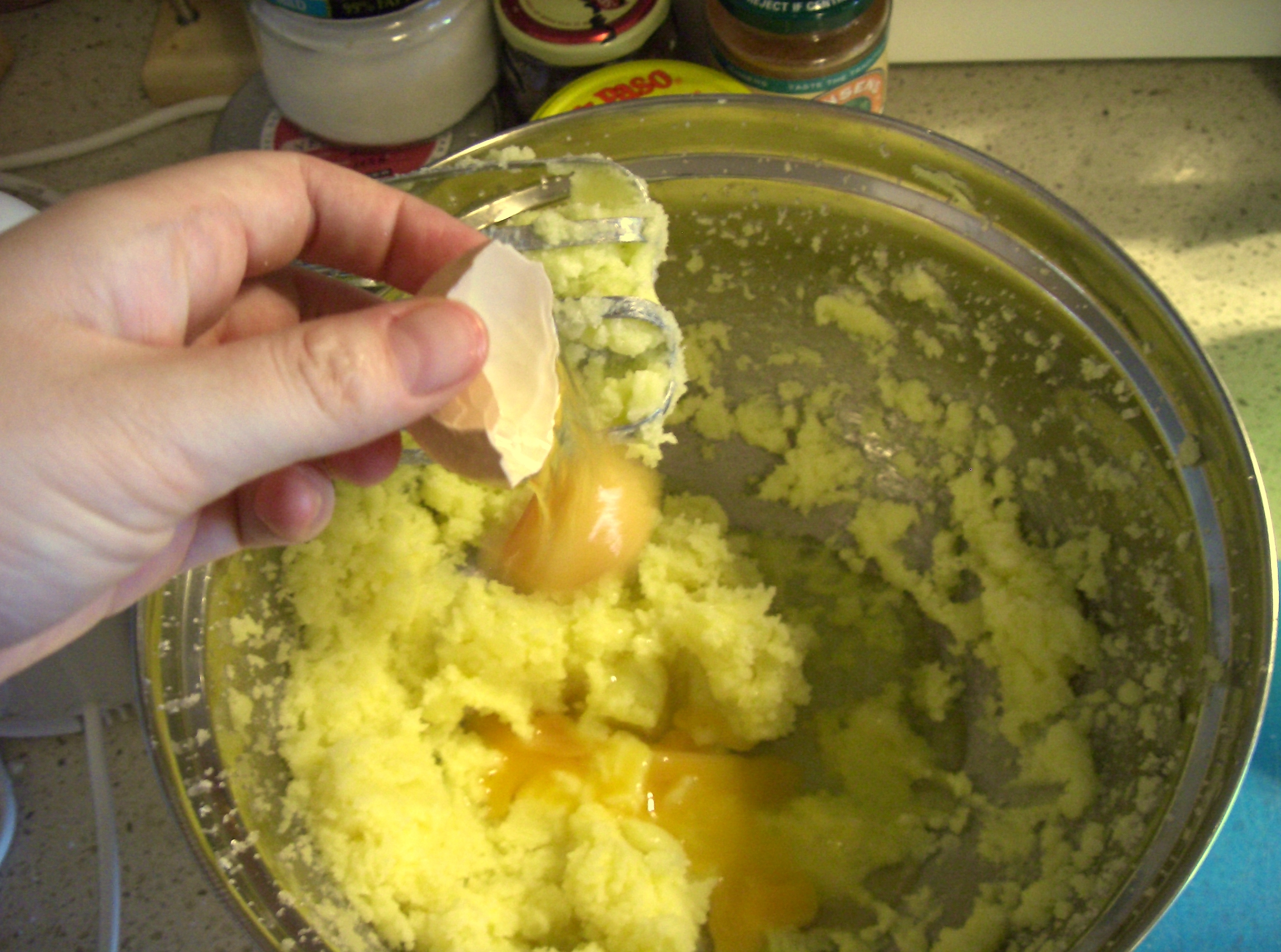 An egg being cracked into a cake mixture (Cookbook:1-2-3-4 Cake).